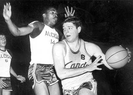 Italian basketball player Gianfranco Lombardi